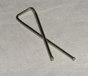 Faye Paperclip. Foto Jan Lapère